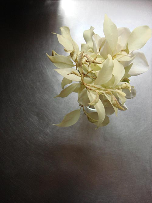 Still life on steel